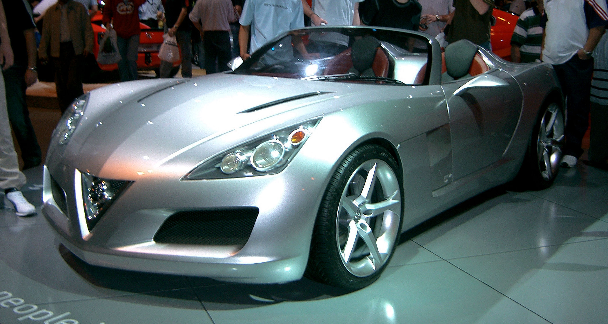 Taken by myself at the 2004 Motorshow